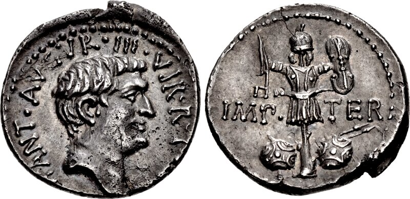 Denarius of Mark Antony, minted in 38 BC.